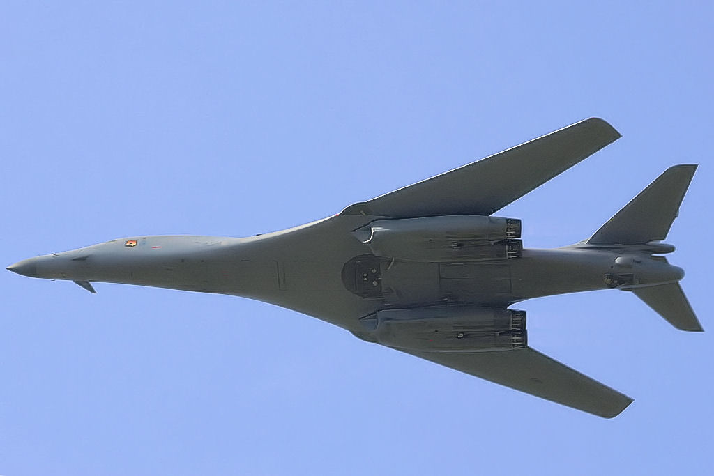 B1b - RIAT 2005